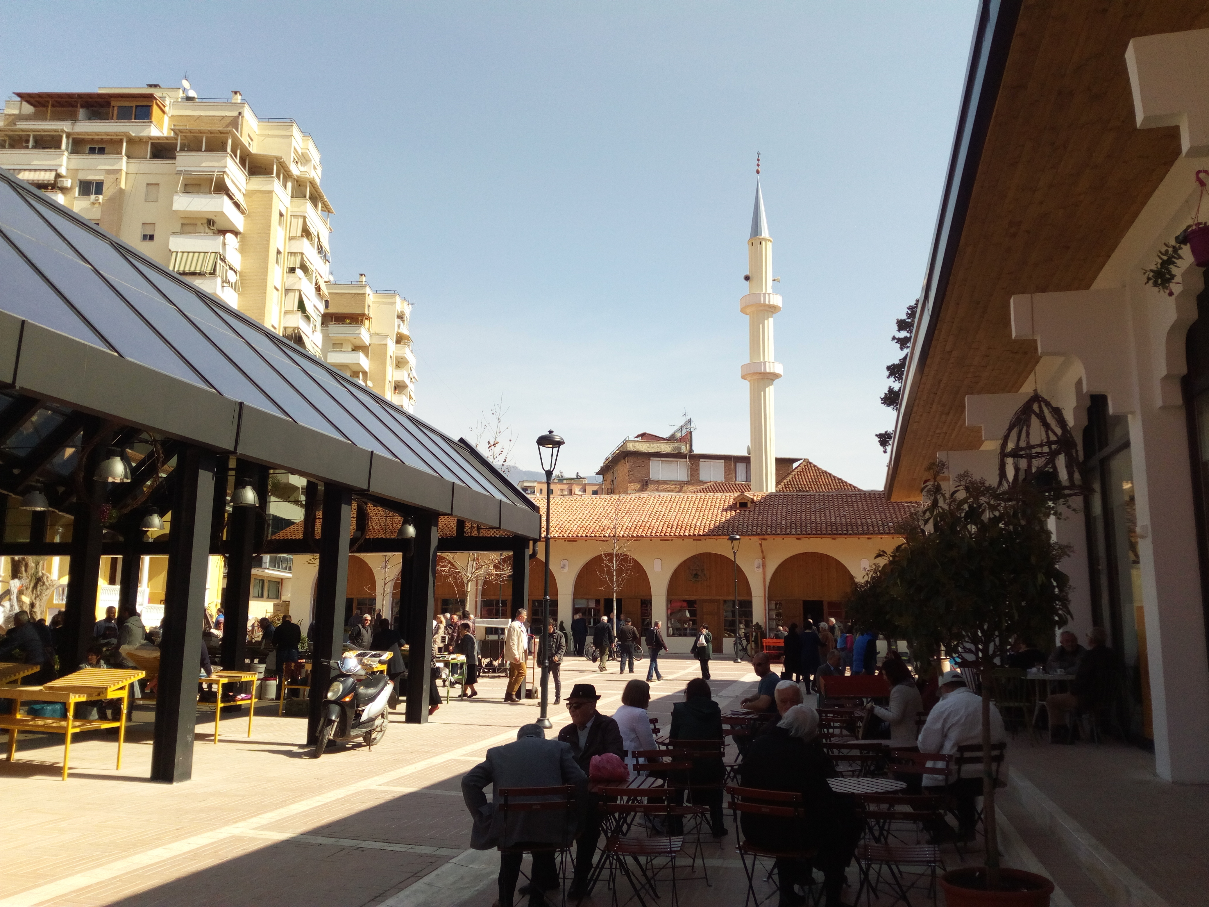 Pazari i Ri